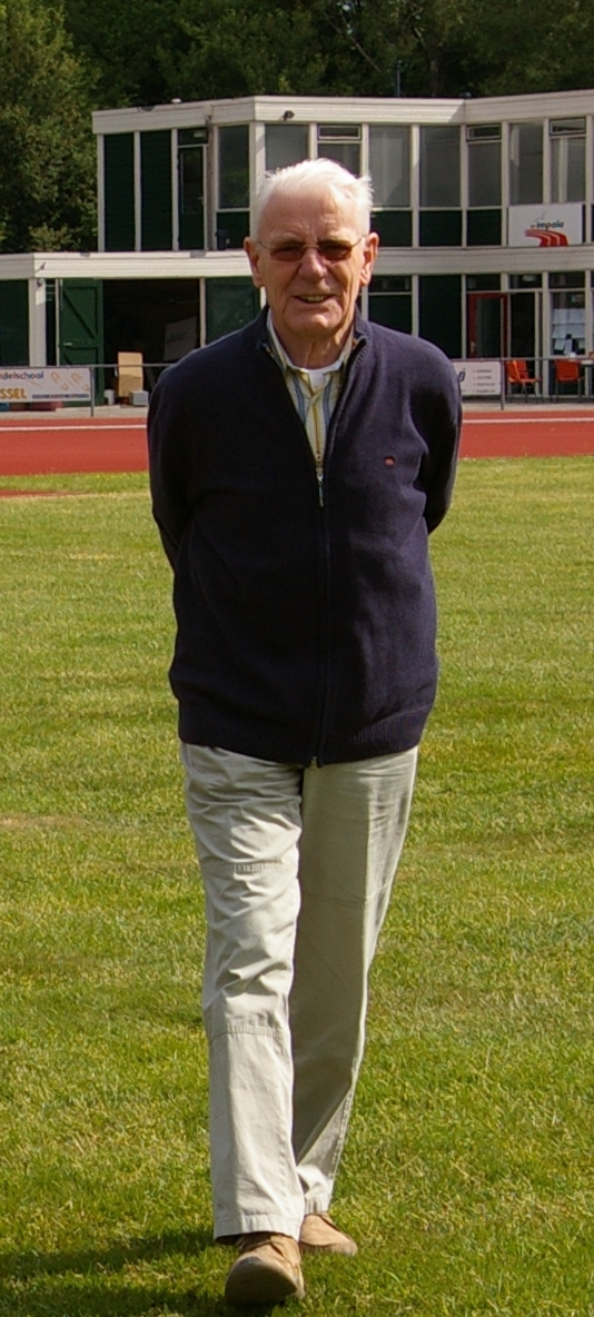 Jan Lammers at the Tollien Schuurman athletics track in Drachten, the Netherlands, 2008